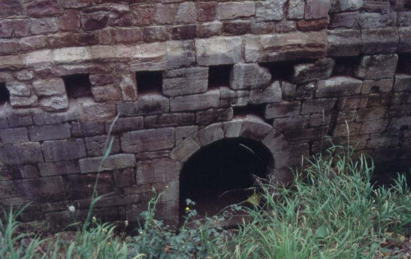 The basement of the Palas of Krayenburg castle.